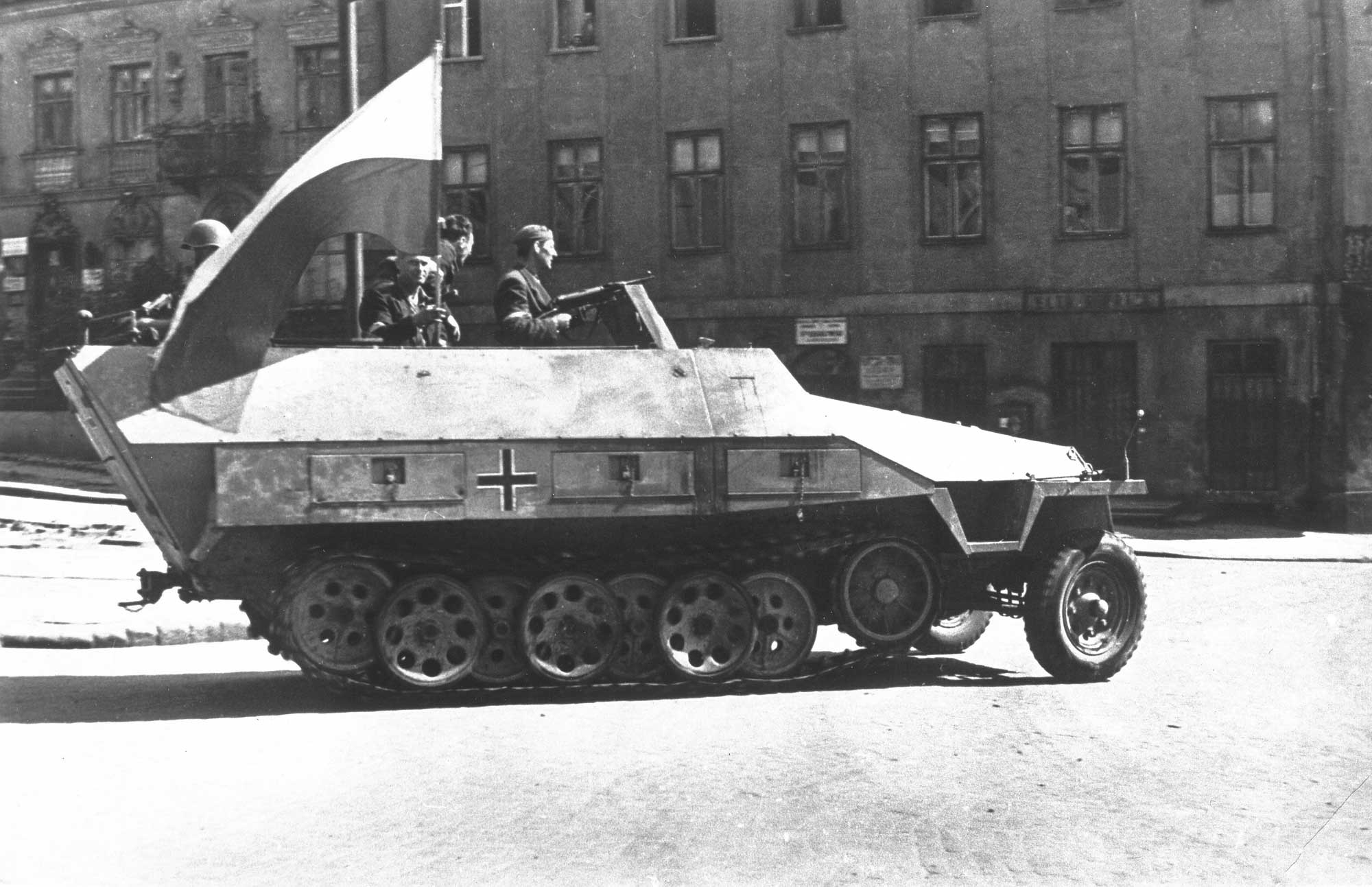 WarsawUprising: German armored fighting vehicle SdKfz 251 captured by the Polish insurgents, from 8-th "Krybar" Regiment, on Na Skarpie Boulevard on August 14, 1944 from 5th SS 'Viking' division. In this picture taken on Tamka Street, soldier with MP-40 submachine gun is his first insurgent commander Adam Dewicz "Gray Wolf". From his nickname insurgents gave the vehicle name "Gray Wolf" and used it in attack on Warsaw University.